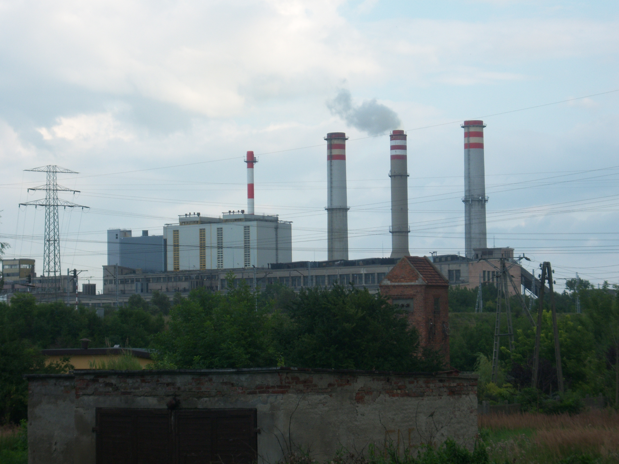 Lignite-fired power plant "Konin" in Konin-Gosławice